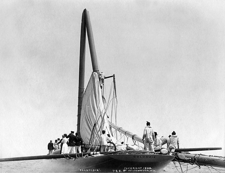 Yacht Columbia, winner of the 1899 America's Cup, demasted.